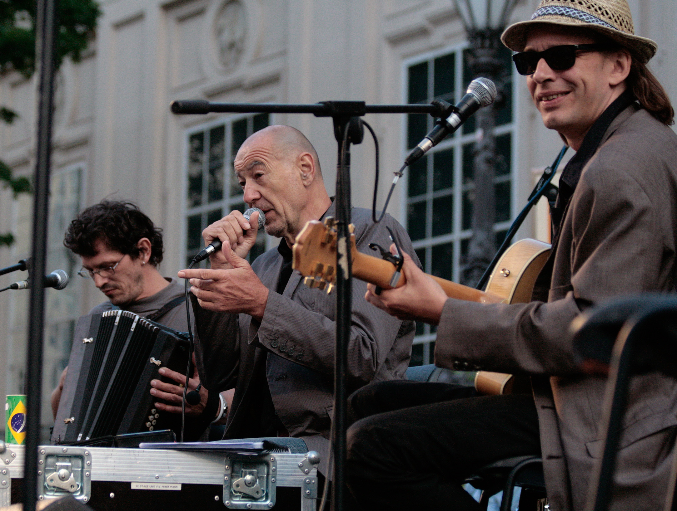 Ernst Molden, Willi Resetarits & Band; opening concert of the literary festival O-Töne at the Museumsquartier in Vienna